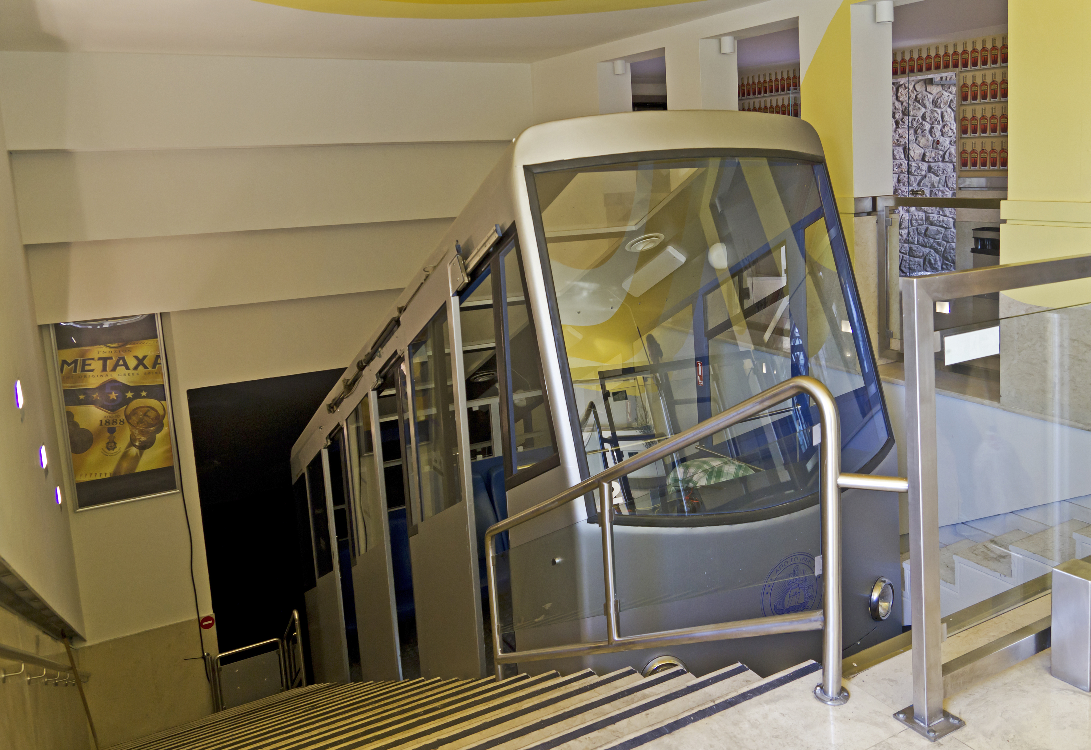 Car of the Lycabettus Funicular in Athens (Attica, Greece)